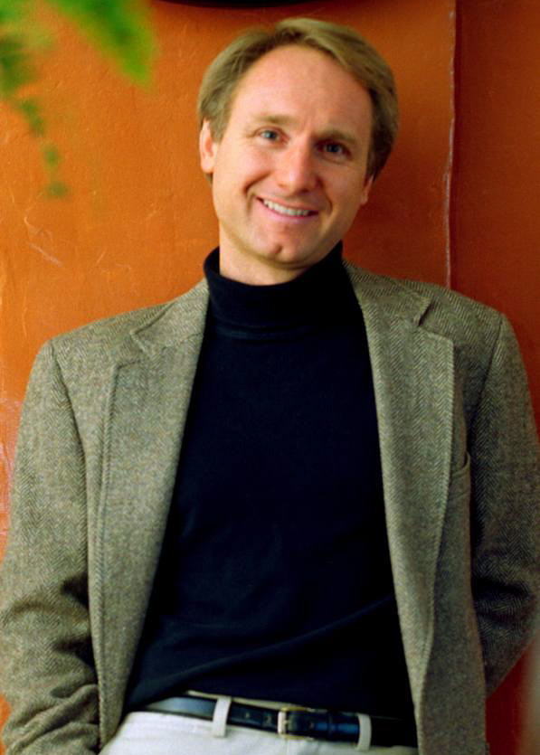 Dan Brown, bookjacket image.